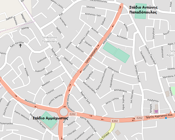 Map of Larnaka with the stadiums of Nea Salamina and Anorthosis